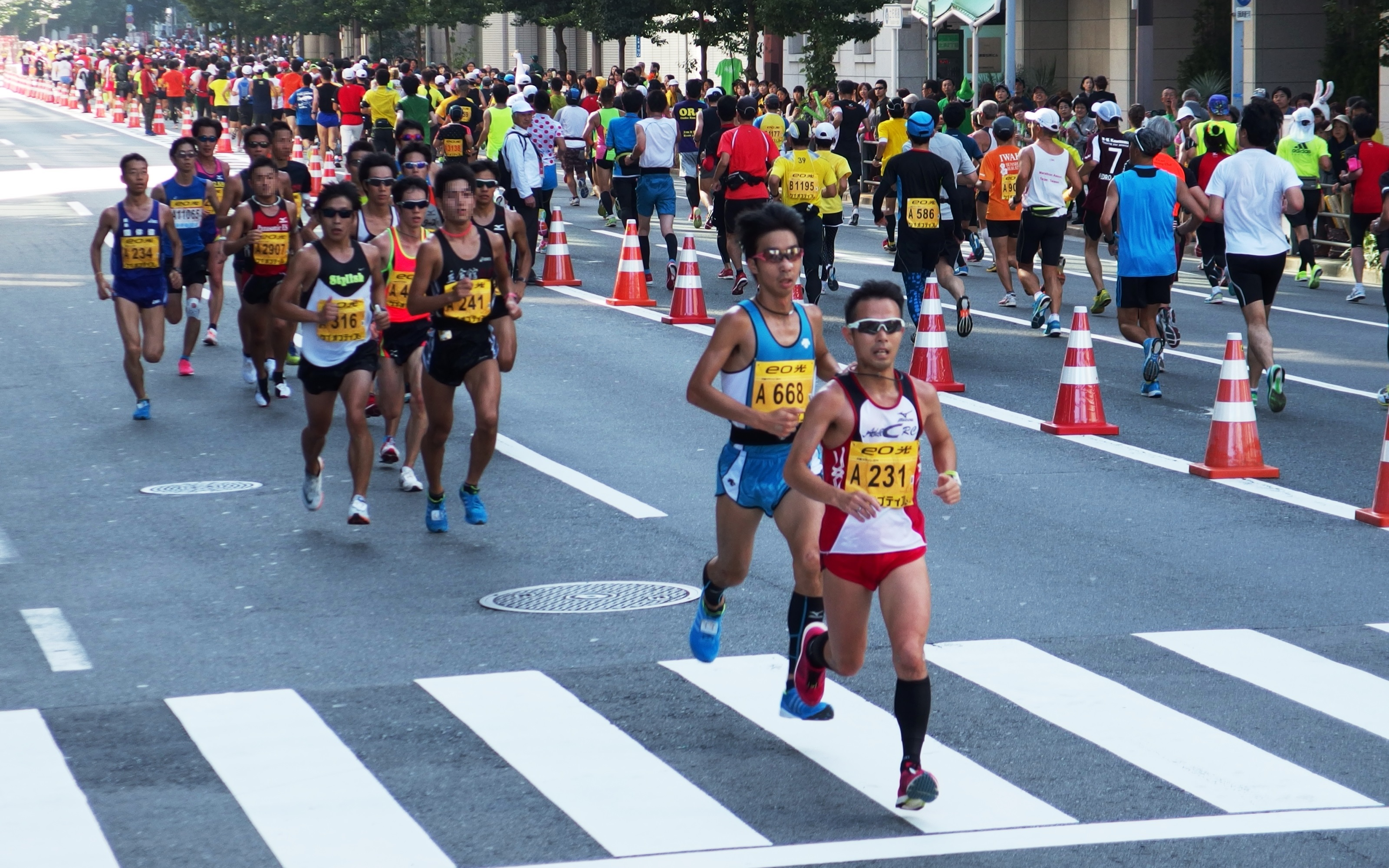 Osaka_Marathon, Osaka, Osaka Prefecture, Japan